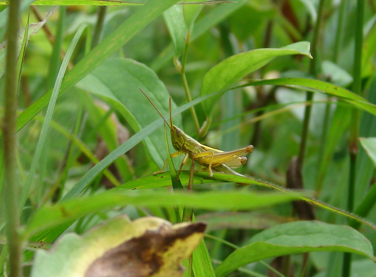 Mongolotettix japonicus Location : Matsumoto, Nagano